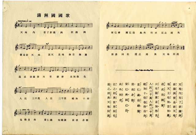 National anthem of Manchukuo 1933-1942.